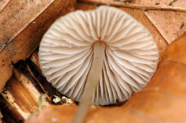 Mycena spec. from Commanster, Belgium. The determination of the species shown in this picture has been verified.